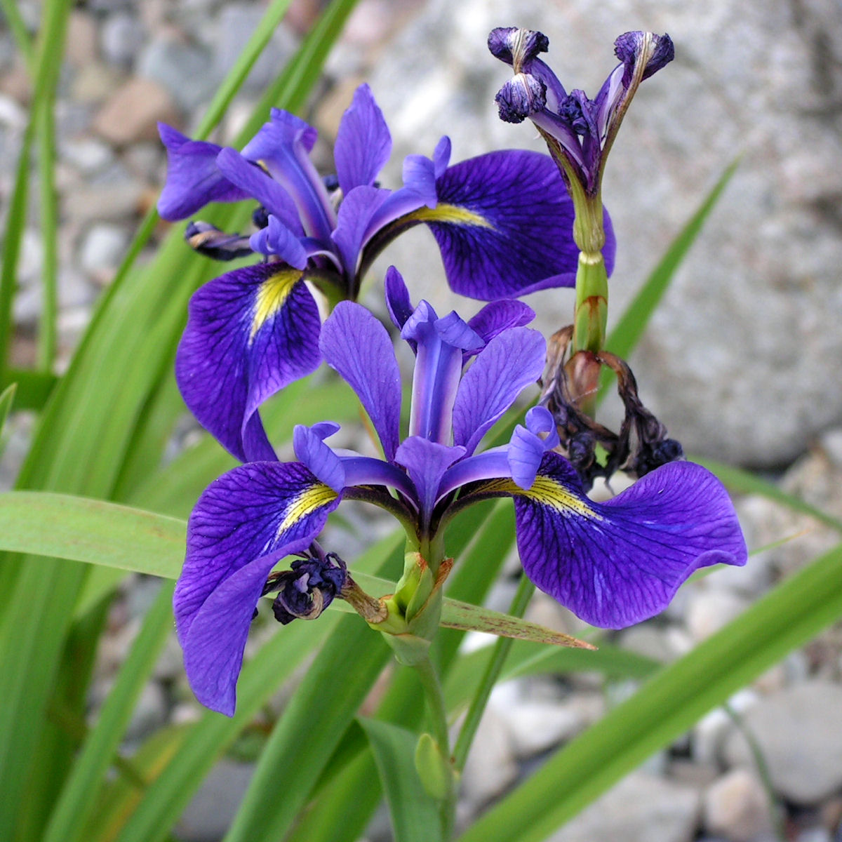 Northern Blue Flag (Iris versicolor), Ottawa, Ontario